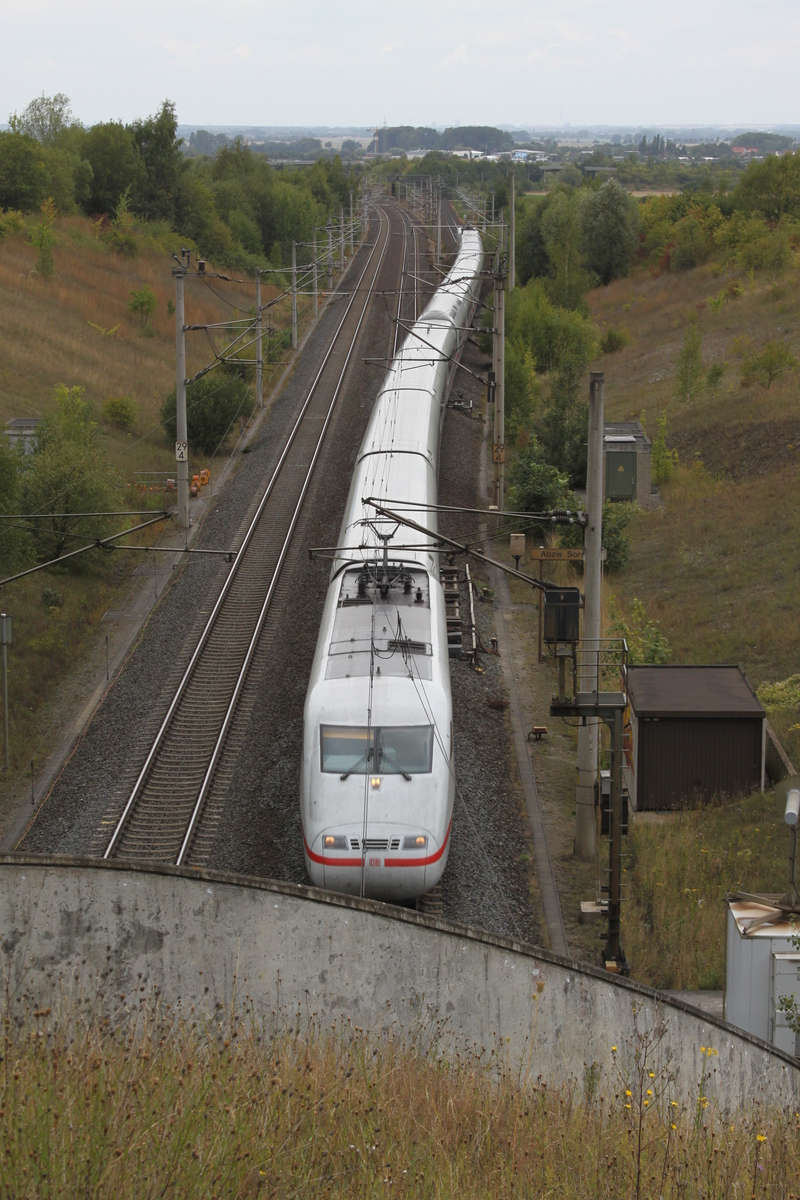 An ICE 1 high-speed train joins the Hannover-Wurzburg high-speed railway line, headed south, coming from Hildesheimer Schleife.